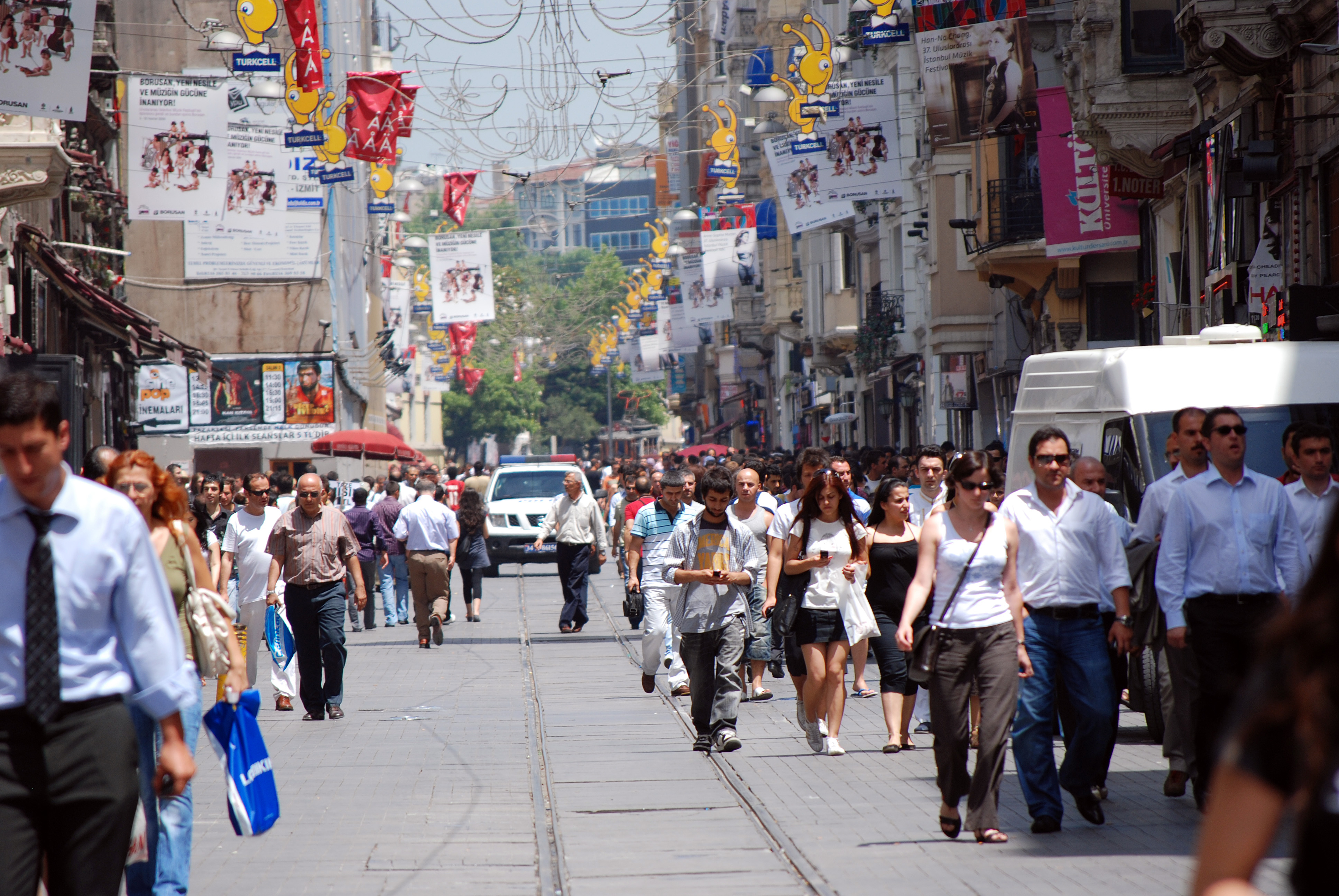 Istiklal Caddesi (Independence Avenue) is the heart of Beyoglu, the more modern district of Istanbul built during the 19th century, now reserved for pedestrians